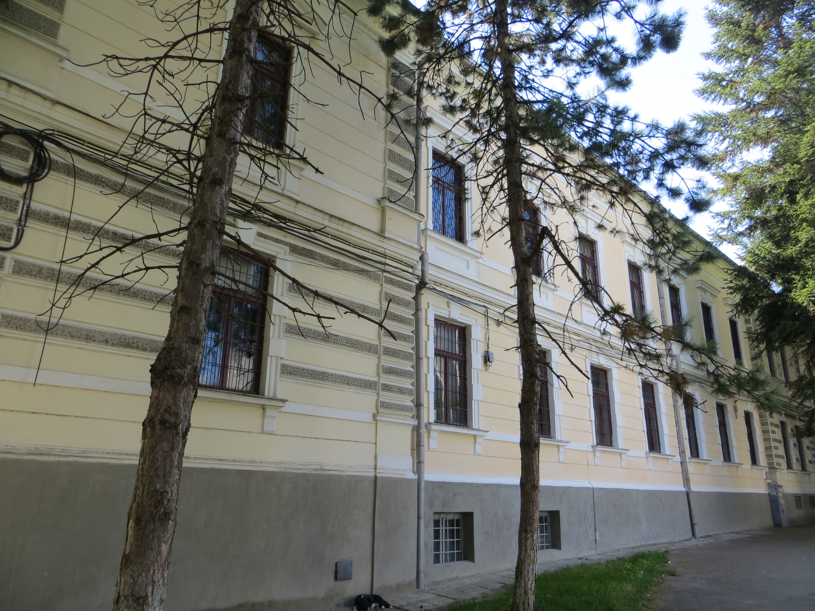 Bukovina Museum in Suceava / Suceava History Museum.